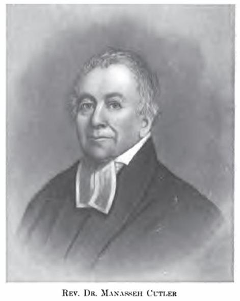 Manasseh Cutler, from the book by Archer Butler Hulbert, The Records of the Original Proceedings of the Ohio Company, Volume II, published in 1917. ColWilliam (talk) 23:06, 3 May 2008 (UTC)